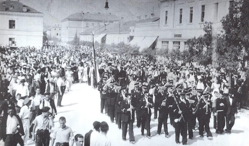 Stjepan Radić, leader of croatian people, at visit to Mostar. Players of HŠK Zrinjski Mostar were there.